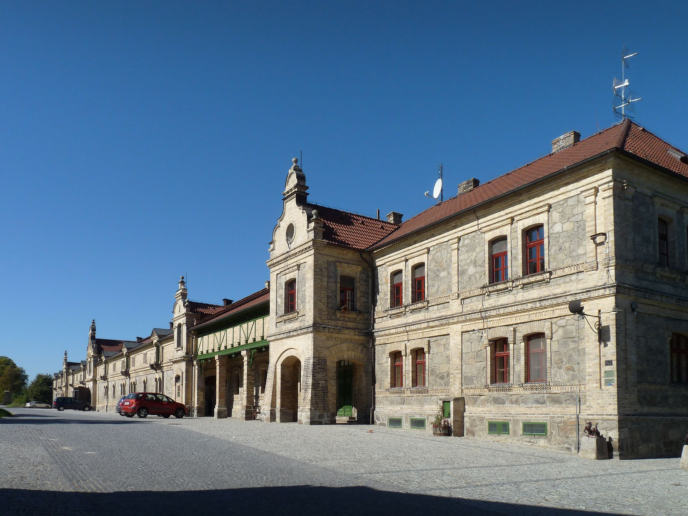 Vondrov horse farm near the town of Hluboká nad Vltavou in České Budějovice District.